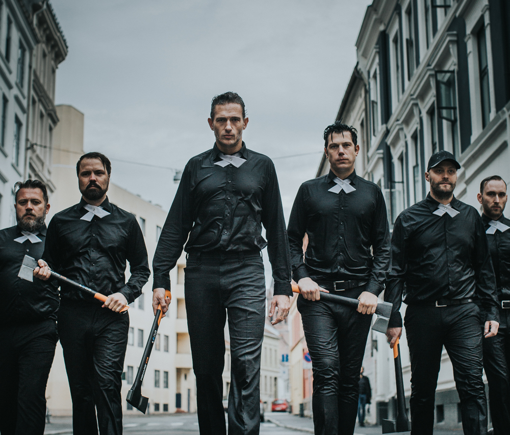 Photo by Michaela Clouda